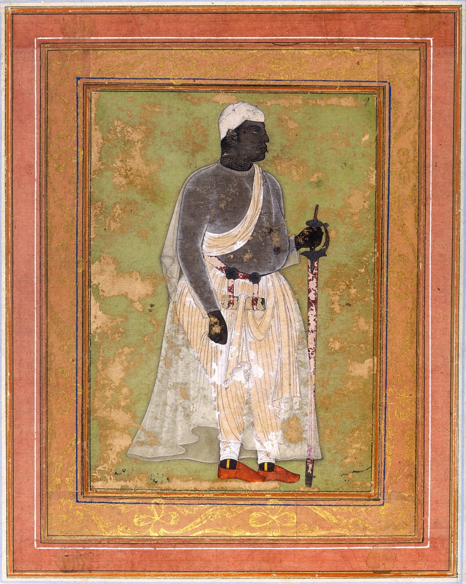 Malik 'Ambar, Ahmadnagar, early 17th century, Museum of Fine Arts, Boston